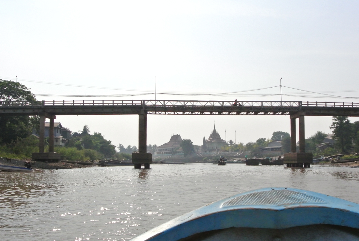 Angkor borei city in today. photo from small boat on number 15 canal.